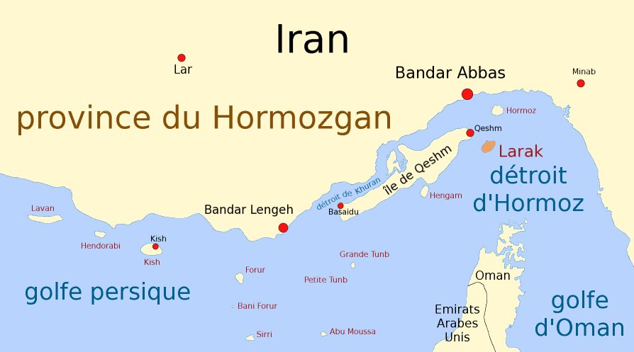 Map of Larak island and surroundings, in french